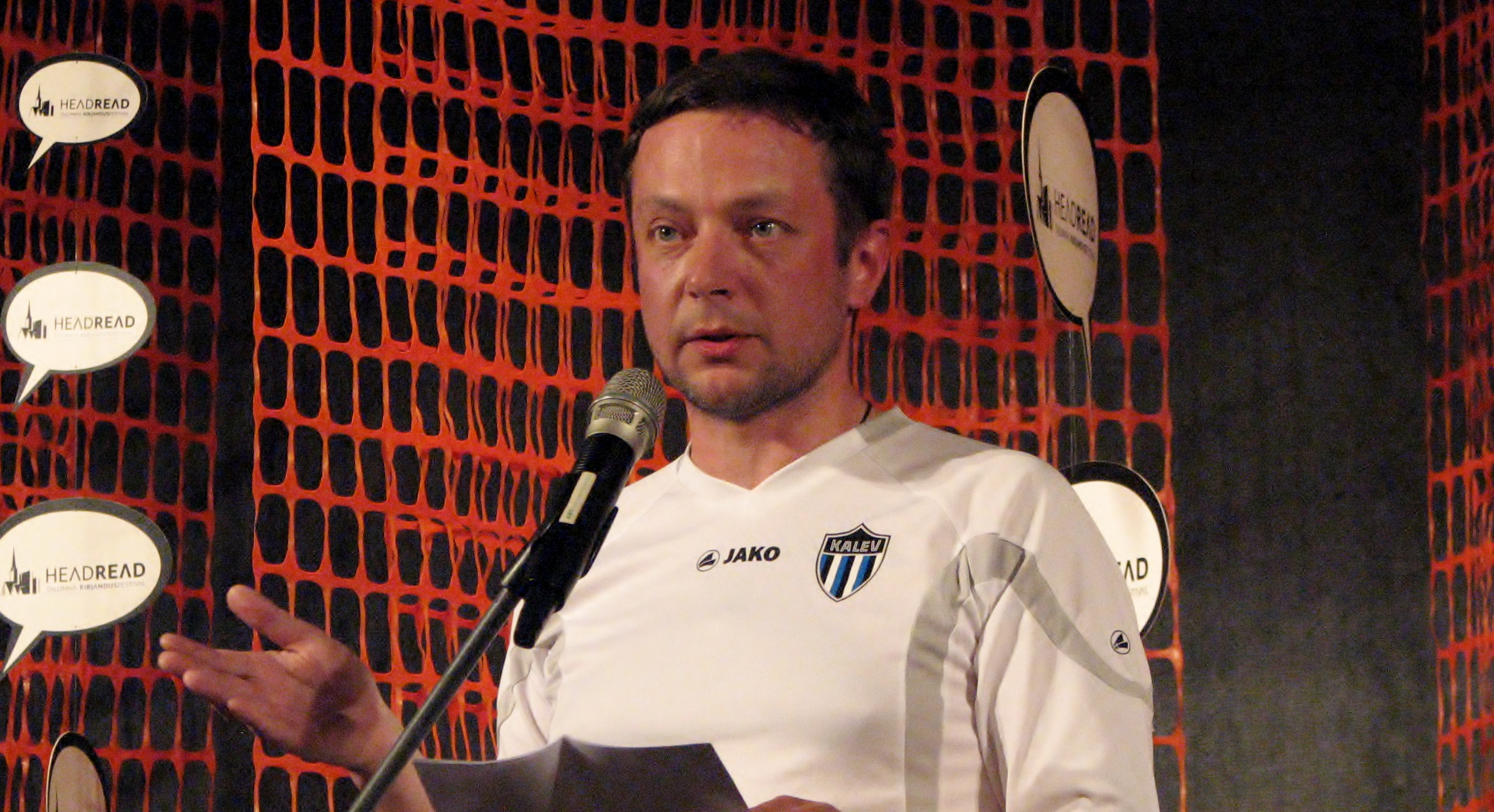 Indrek Koff performing in HeadRead 2012